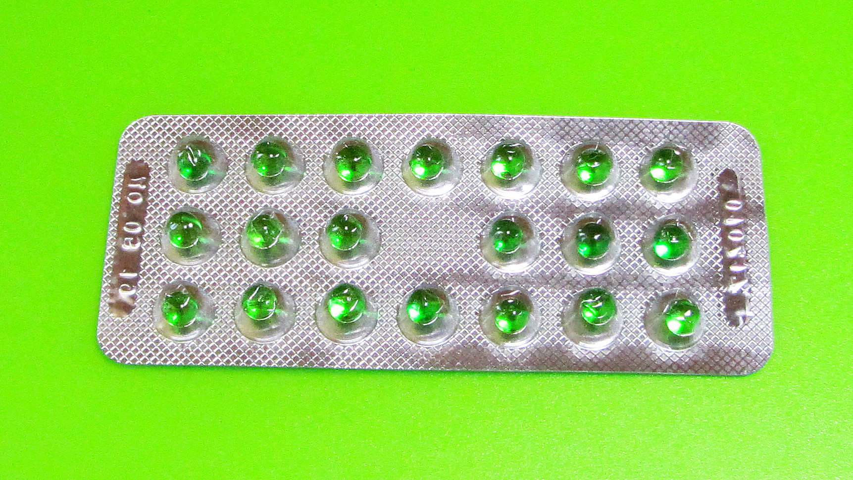 Retinol